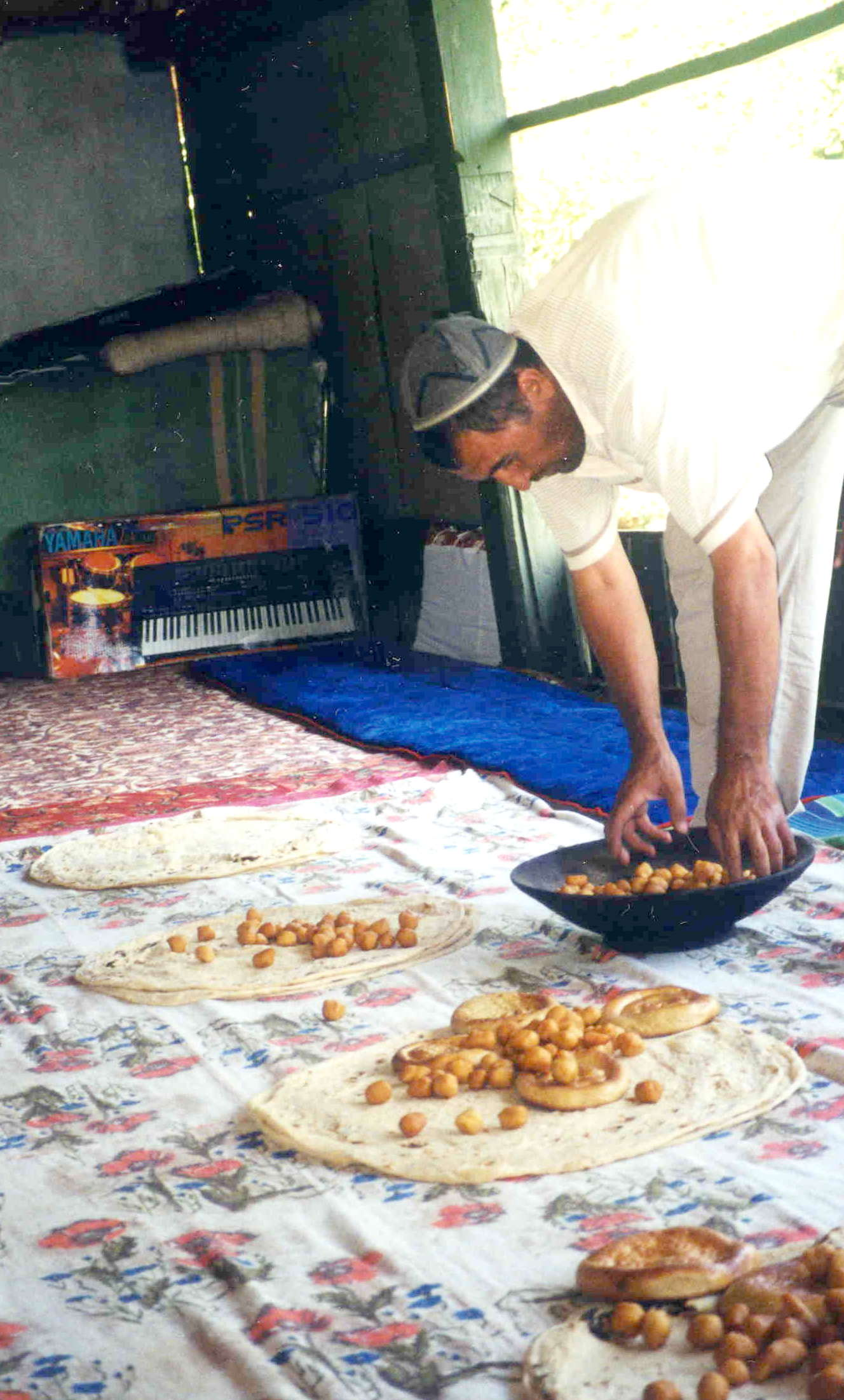 Small sweetmeats placed in the centre of the room to greet the guests.